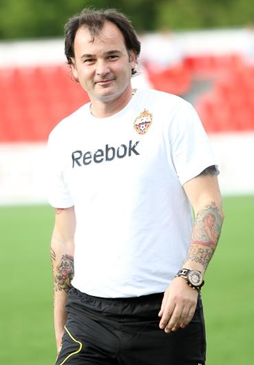 Aleksandr Grishin working with the Under-21 team of PFC CSKA Moscow.